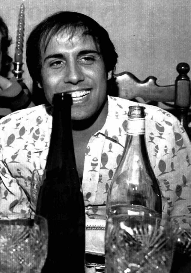 Italian singer Adriano Celentano at his home